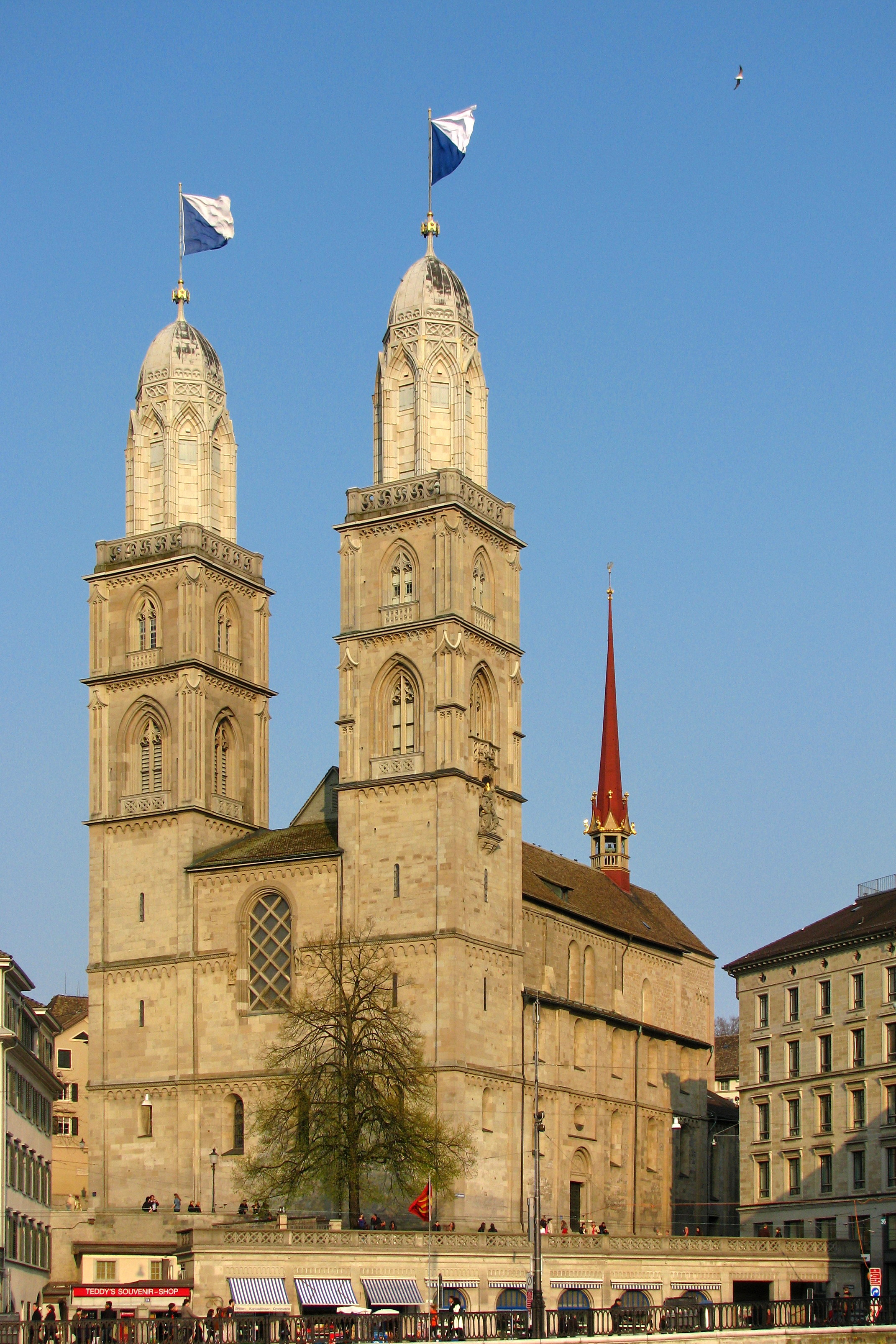 Zürich : Grossmünster church and Limmatquai as seen from Wühre nearby Münsterhof.